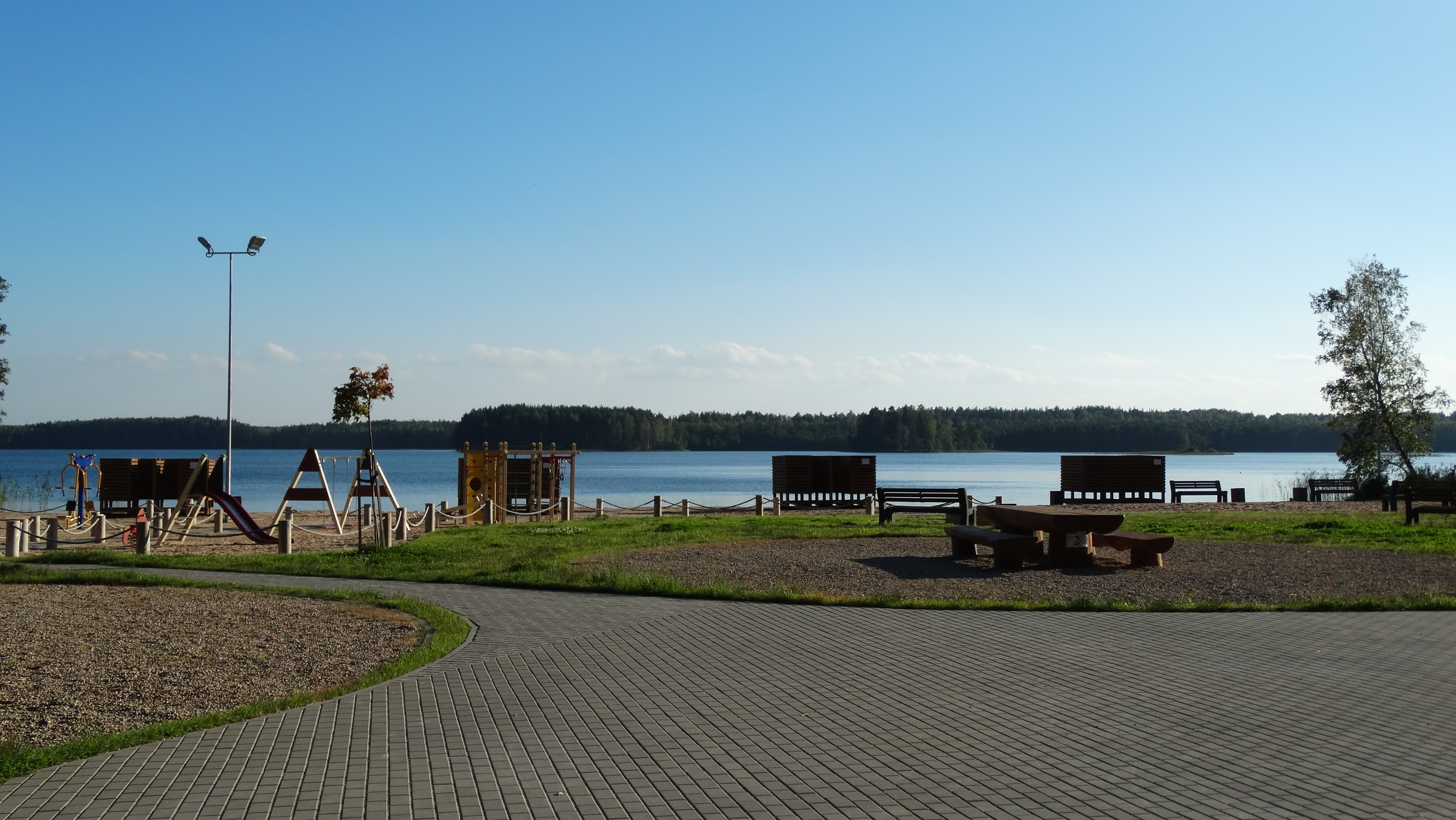 Visaginas Lake, Lithuania